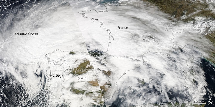 An extratropical cyclone named Xynthia brought hurricane-force winds and high waves to Western Europe at the end of February 2010, CNN reported. Winds as fast as 200 kilometers (125 miles) per hour reached as far inland as Paris, and at the storm’s peak, hurricane-force winds extended from Portugal to the Netherlands. Hundreds of people had to take refuge from rising waters on their rooftops. By March 1, at least 58 people had died, some of them struck by falling trees. Most of the deaths occurred in France, but the storm also caused casualties in England, Germany, Belgium, Spain, and Portugal. The Moderate Resolution Imaging Spectroradiometer (MODIS) on NASA’s Aqua satellite captured this image of Western Europe, acquired in two separate overpasses on February 27, 2010. MODIS captured the eastern half of the image around 10:50 UTC, and the western half about 12:30 UTC. Forming a giant comma shape, clouds stretch from the Atlantic Ocean to northern Italy.